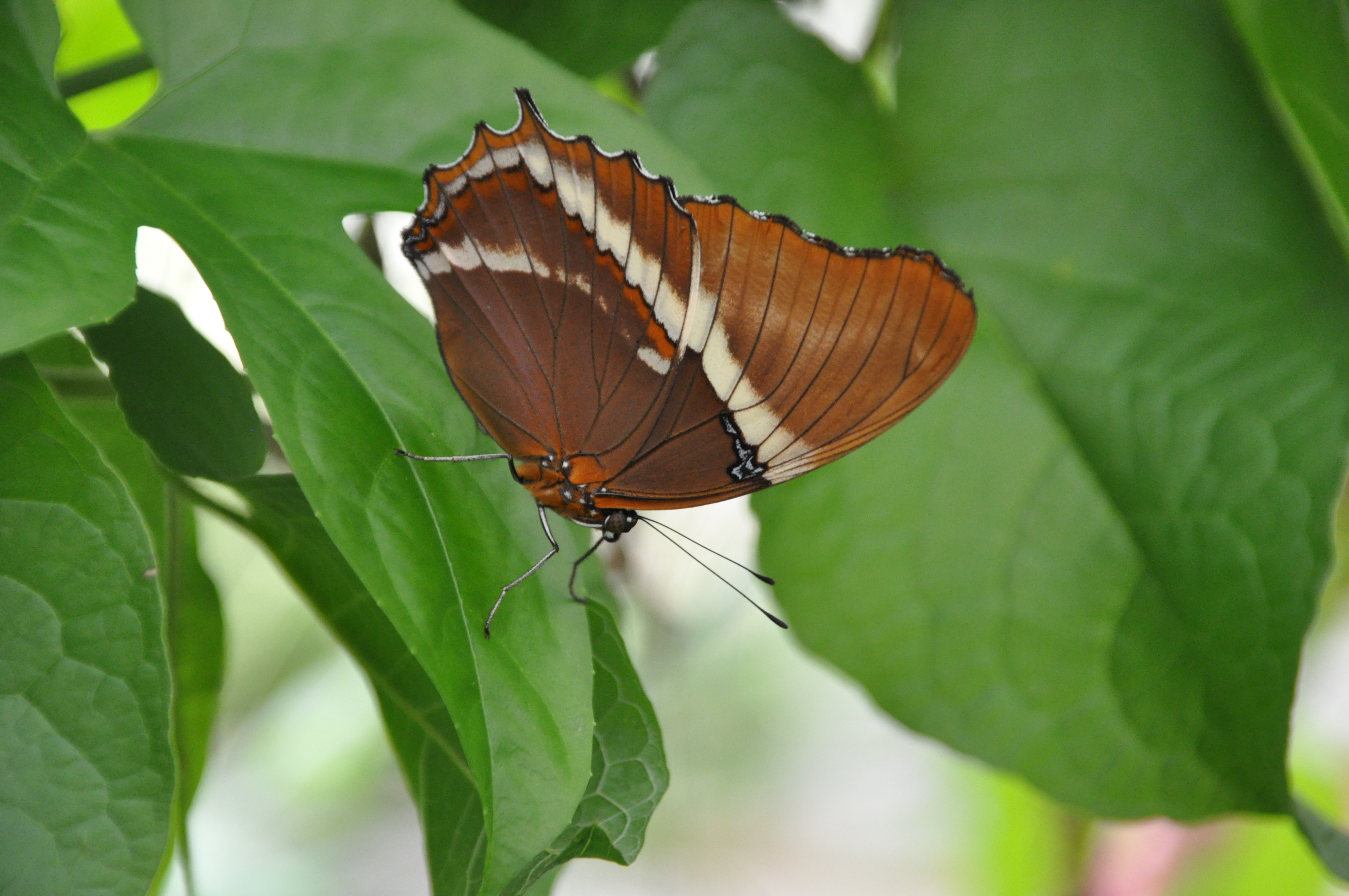 Brown Page (Siproeta epaphus)